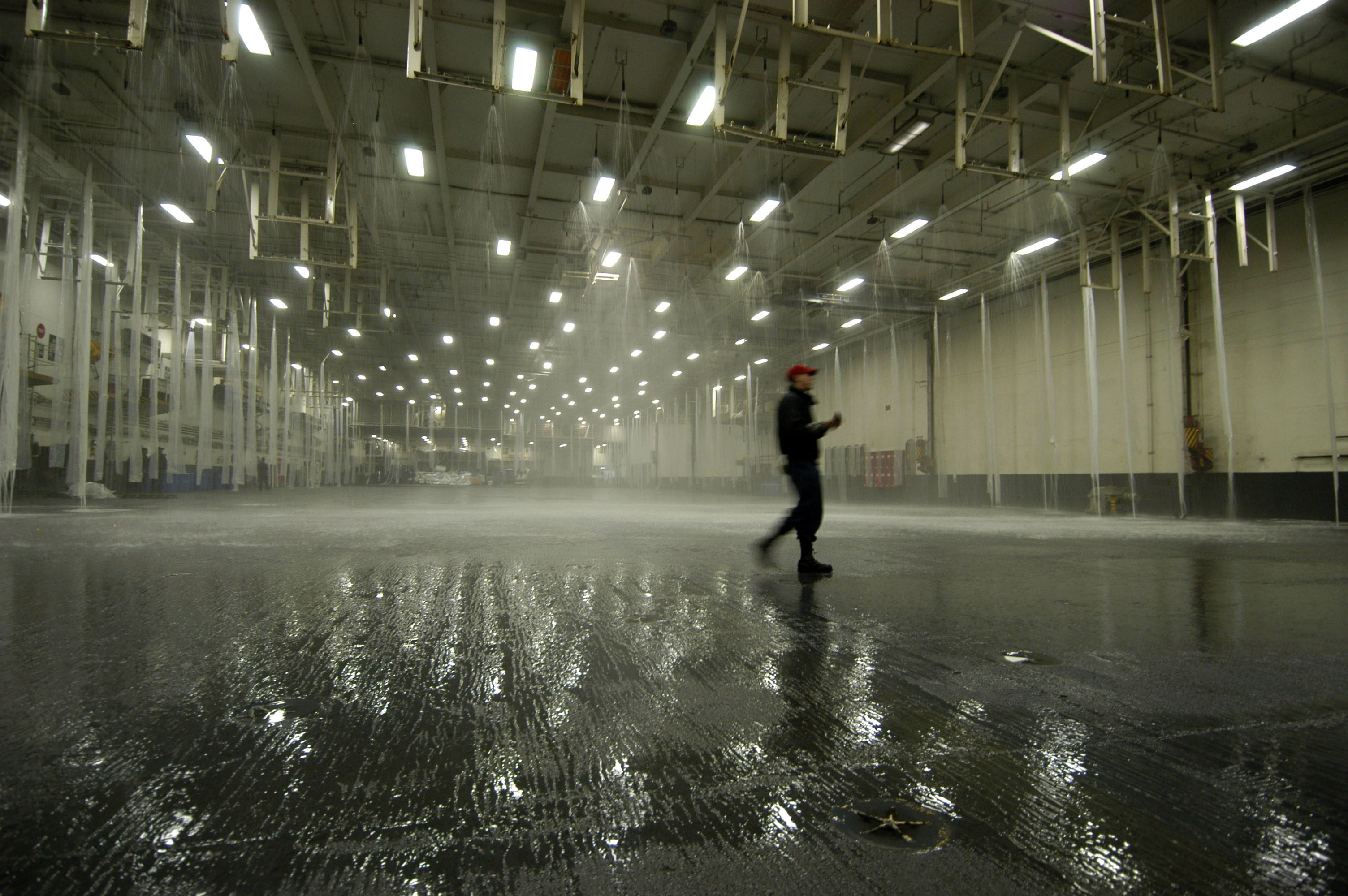 Pacific Ocean (Jan. 11, 2005) - Damage Controlman 3rd Class Pat Knodel, of Orange County, Calif., monitors the testing of the hangar bay sprinkler system aboard the conventionally powered aircraft carrier USS Kitty Hawk (CV 63) during sea trials in the western Pacific Ocean. Currently under way in the 7th Fleet area of responsibility (AOR), Kitty Hawk demonstrates power projection and sea control as the U.S. Navy's only permanently forward-deployed aircraft carrier, operating from Yokosuka, Japan. U.S. Navy photo by Photographer's Mate 3rd Class Bo J. Flannigan (RELEASED)